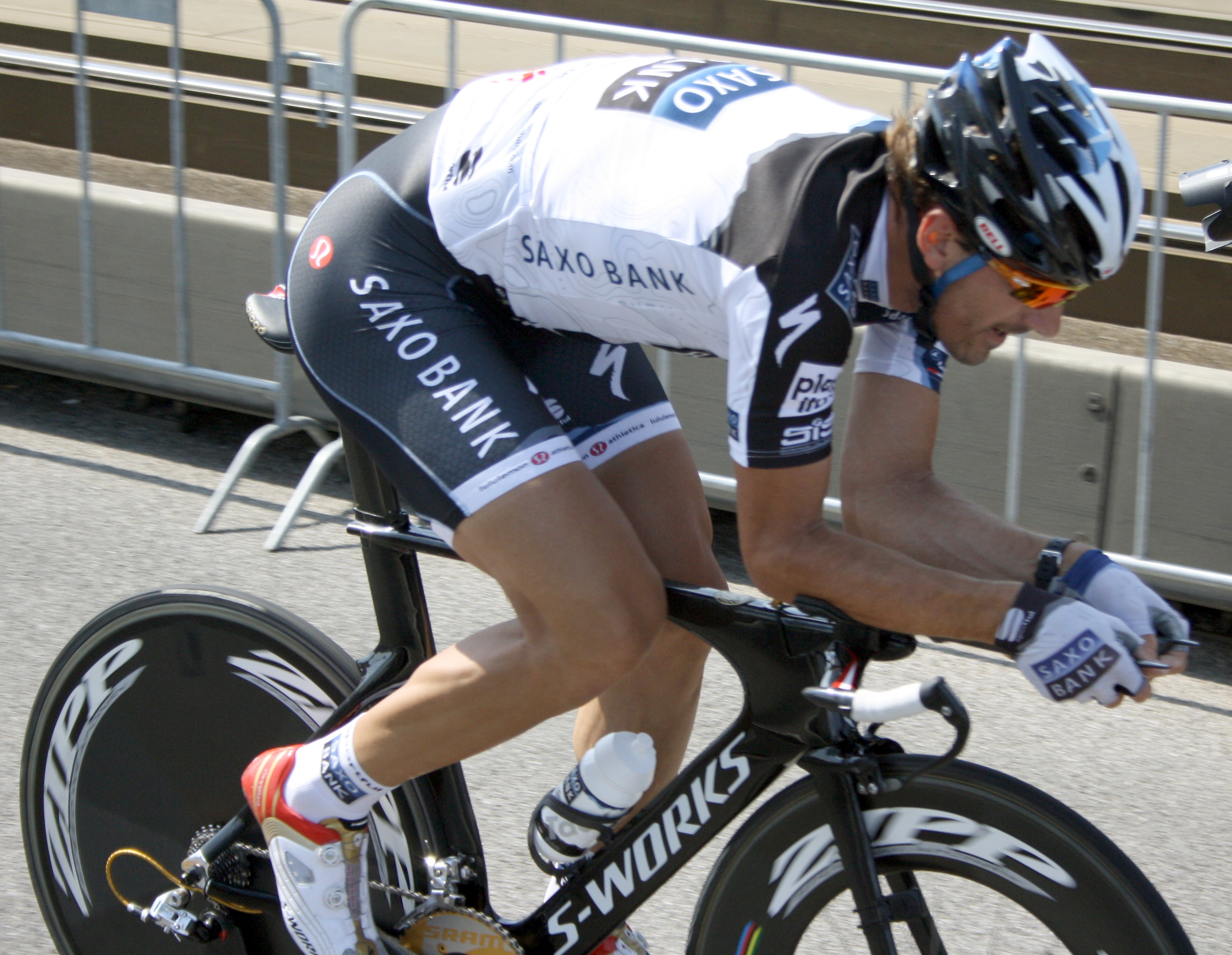 Fabian Cancellara training for the prologue of the 2010 Tour de France in Rotterdam